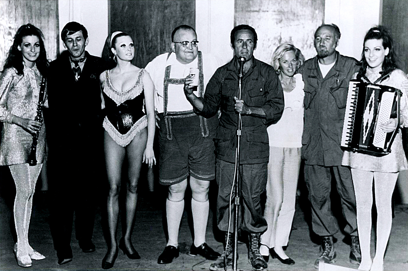 December of 1968 Joey Bishop, Jennie and Terrie Frankel (Doublemint Twins), Sig Sakowitz, Tony Diamond, Sara Sue, Tippi Hedren and Mel Bishop pose for this shot after performing for servicemen in Saigon, Vietnam. During November and December the Sig Sakowitz troop from Chicago performed over 36 shows all over South Vietnam, including: Danang, Pleiku, Cam Ran Bay, Phu Bai, Phu Loy, Hue, Dalat, Tan Sun Nhut Airbase and many locations including the boonies where servicemen normally did not get to see USO shows like Bob Hope. The troop was delivered by Jeep, C-130s, helicopters, etc. to remote locations because they did not need electricity to perform. The waiting soldiers were grateful to have a taste of home and often offered all they could - the patches they wore on their uniforms called "flashes." Among the songs performed were: When the Saints Go Marching In, folk songs and popular songs of the era. Servicemen would be invited onto the stage to dance with and be sung to by Sara Sue of Chicago's Gaslight Club. Comedian Tony Diamond, a Vet who knew first hand the thrill a USO show could bring to GIs, kept the laughter coming. Sig Sakowitz, dressed in Polish attire, sang polkas. Joey Bishop of Rat Pack fame, lightened everyone's spirits with his deadpan style of Las Vegas comedy. Tippi Hedron, a personality and actress, famous for starring in Alfred Hitchcock's "The Birds" signed autographs. Mel Bishop was a friend of Joey's. The troop had a GS15 Rating, which likened them to Colonels, so they were well protected and had an escort officer and armed servicemen to assure their safety wherever they were taken. Martha Raye stayed with the troop at their hotel in Saigon. She had been performing for servicemen with the United Service Organization since WWII.